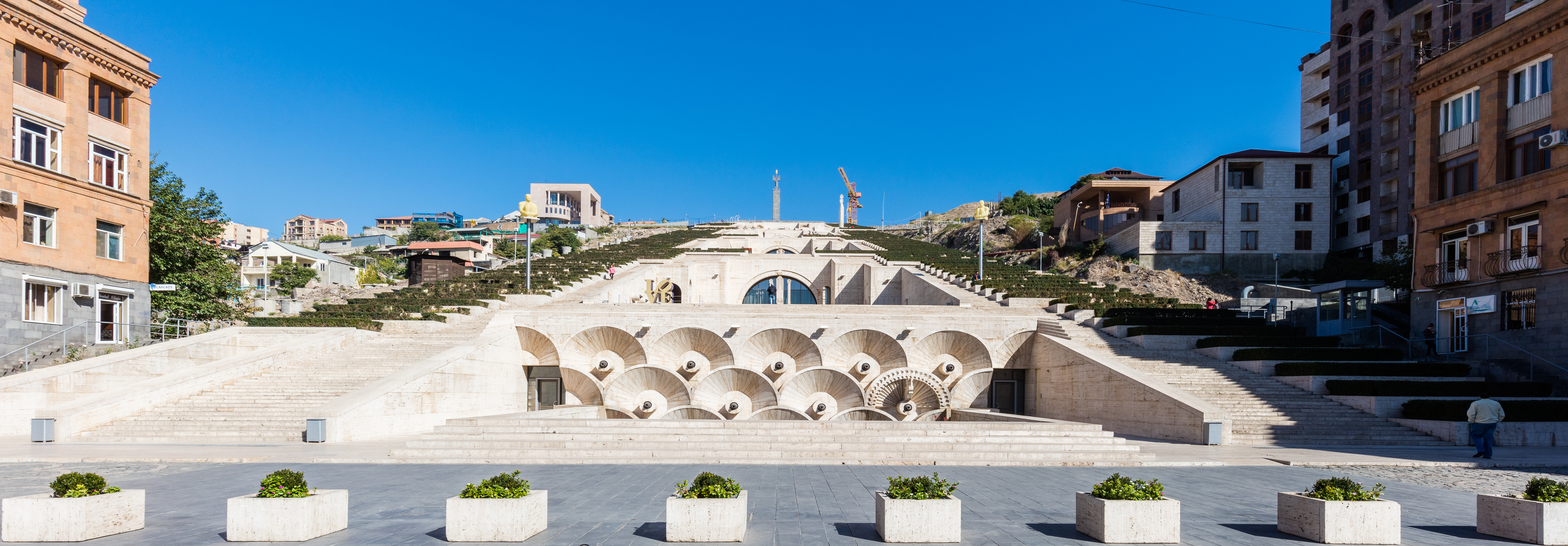 Cascade, Yerevan, Armenia